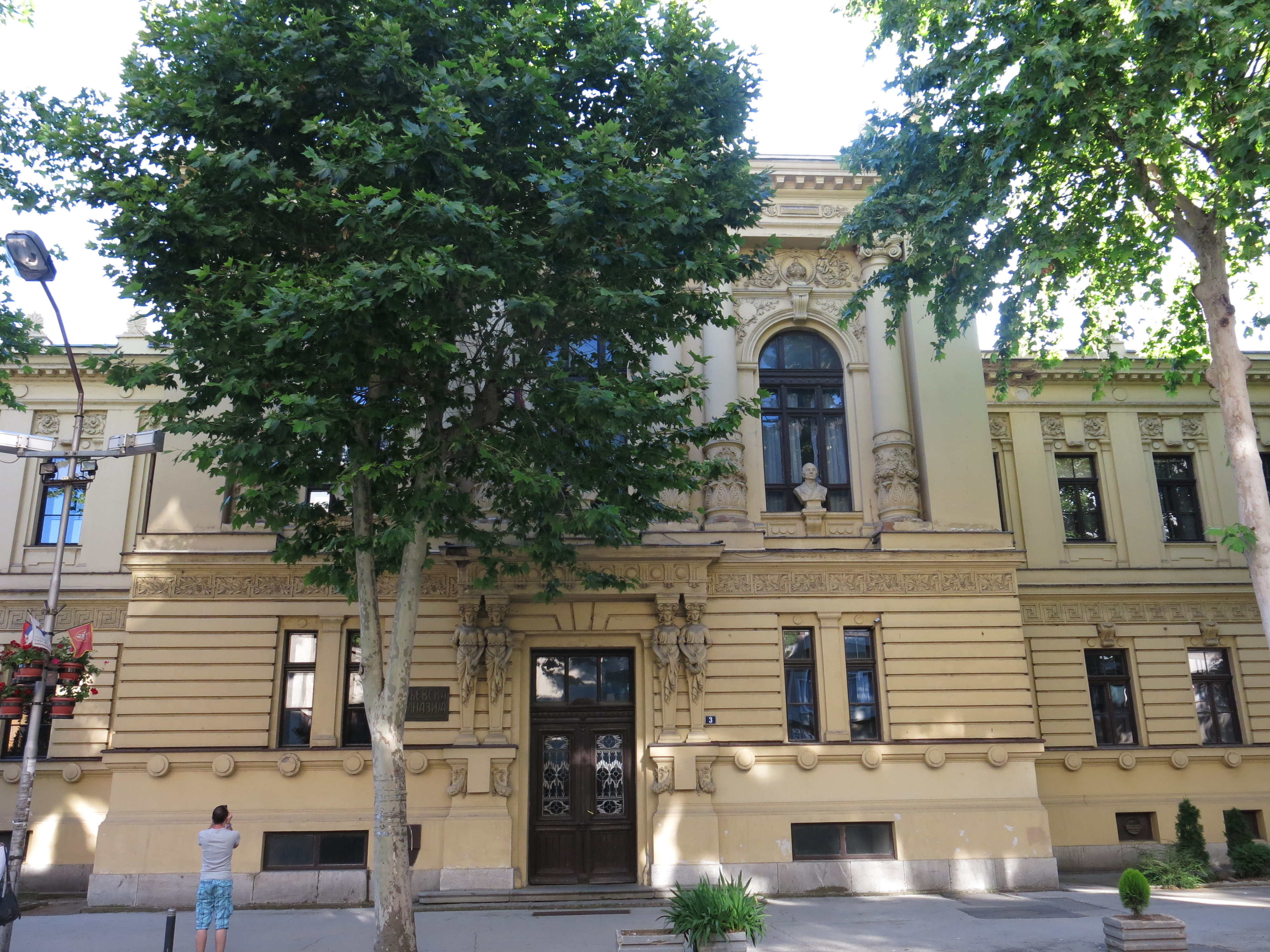 Valjevo, Valjevo Gymnasium